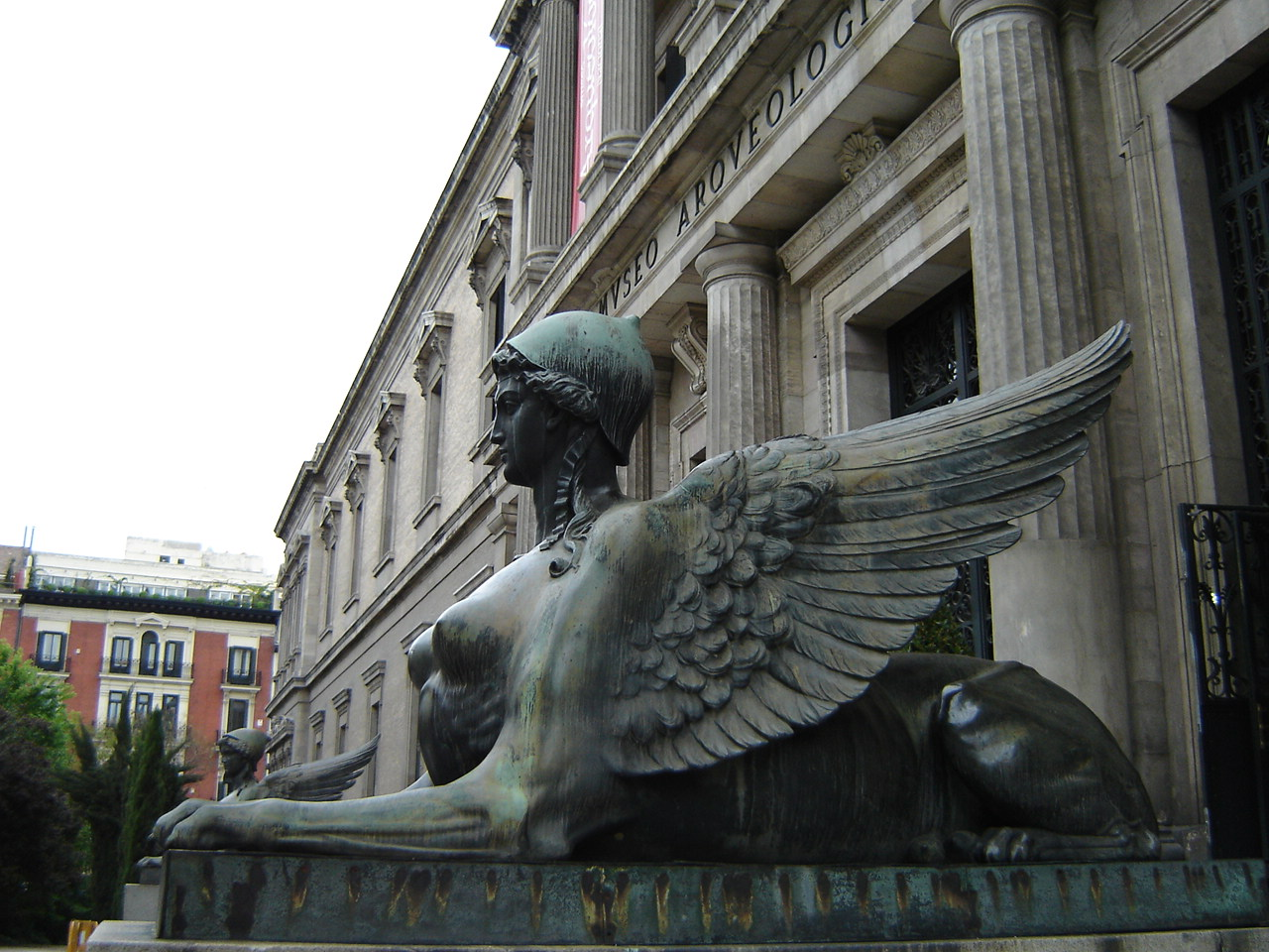 Bronze sphinx at the entrance of the National Archaeological Museum of Spain, in Madrid. Made by sculptor Felipe Moratilla y Parreto (1823–?) in 1892.